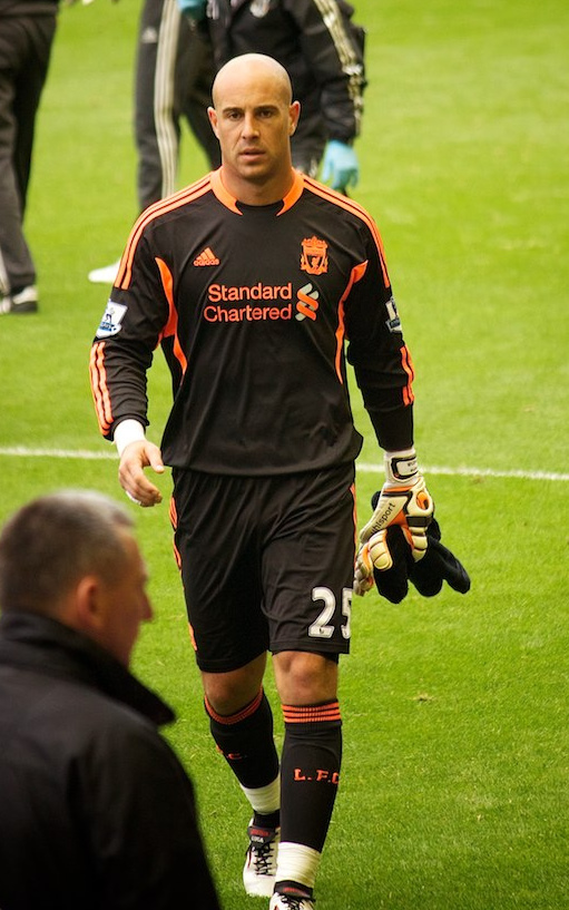 Pepe Reina of Liverpool